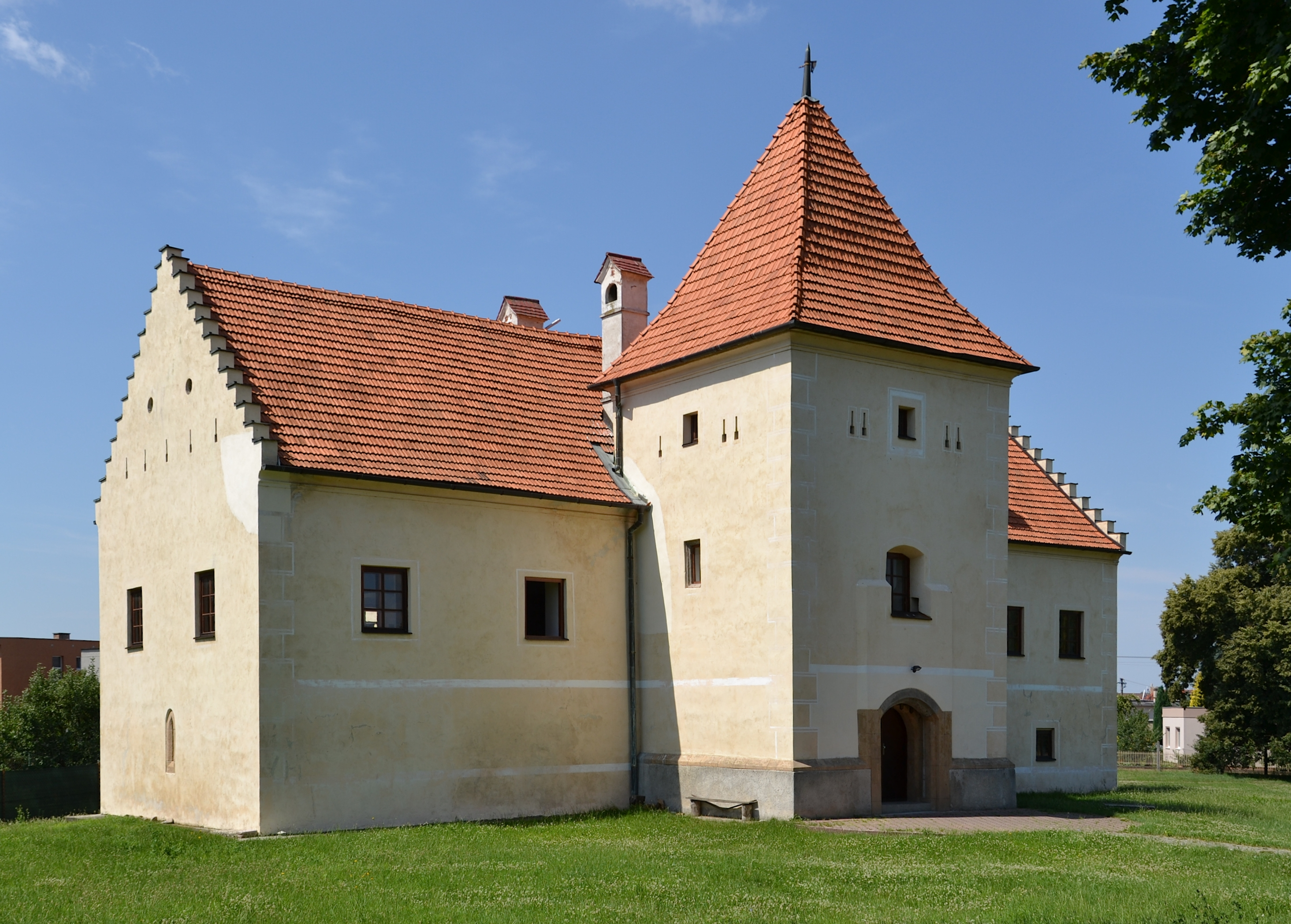 Partizánske, Slovakia - water castle